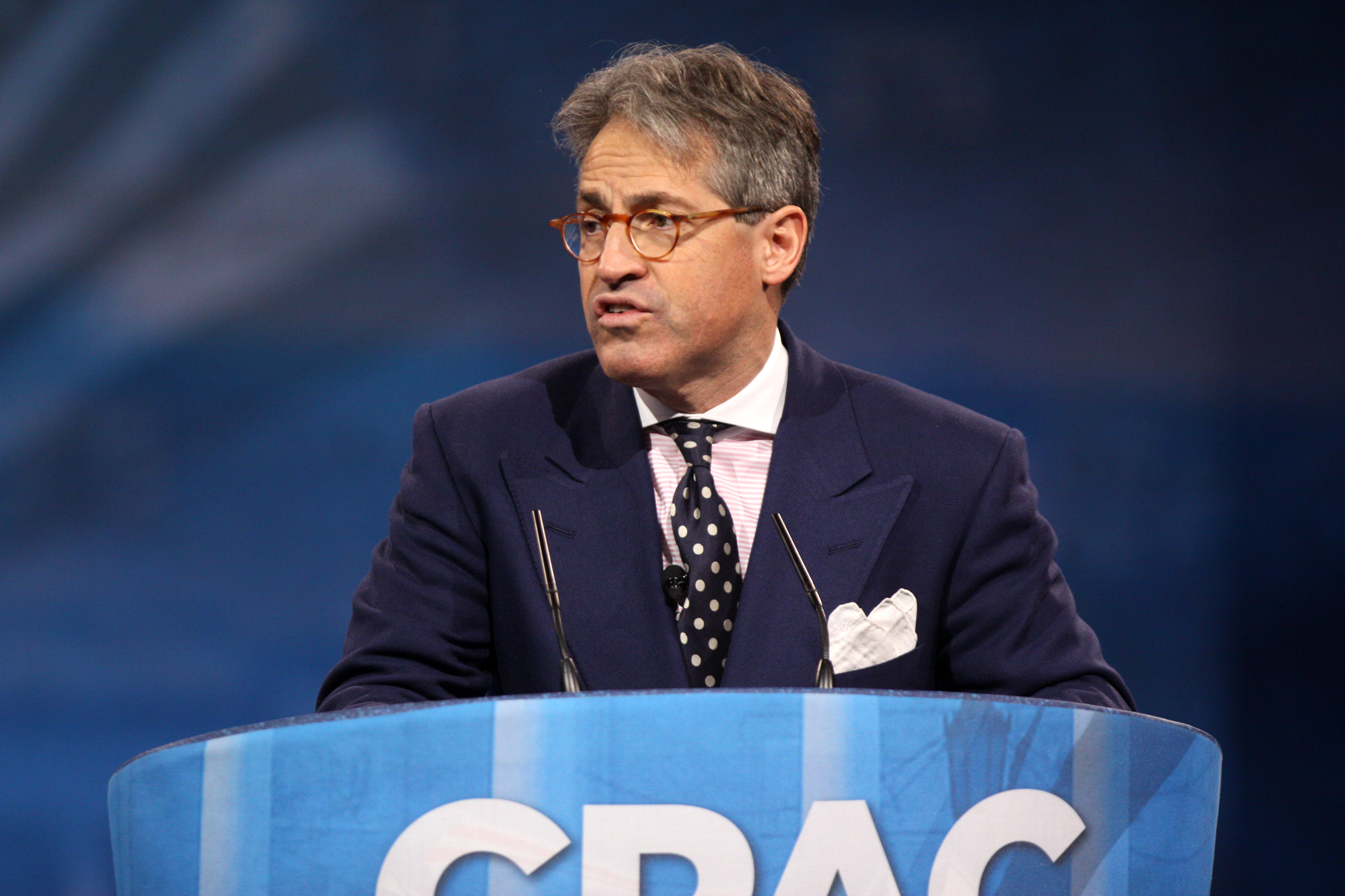 Eric Metaxas speaking at the 2013 Conservative Political Action Conference (CPAC) in National Harbor, Maryland.